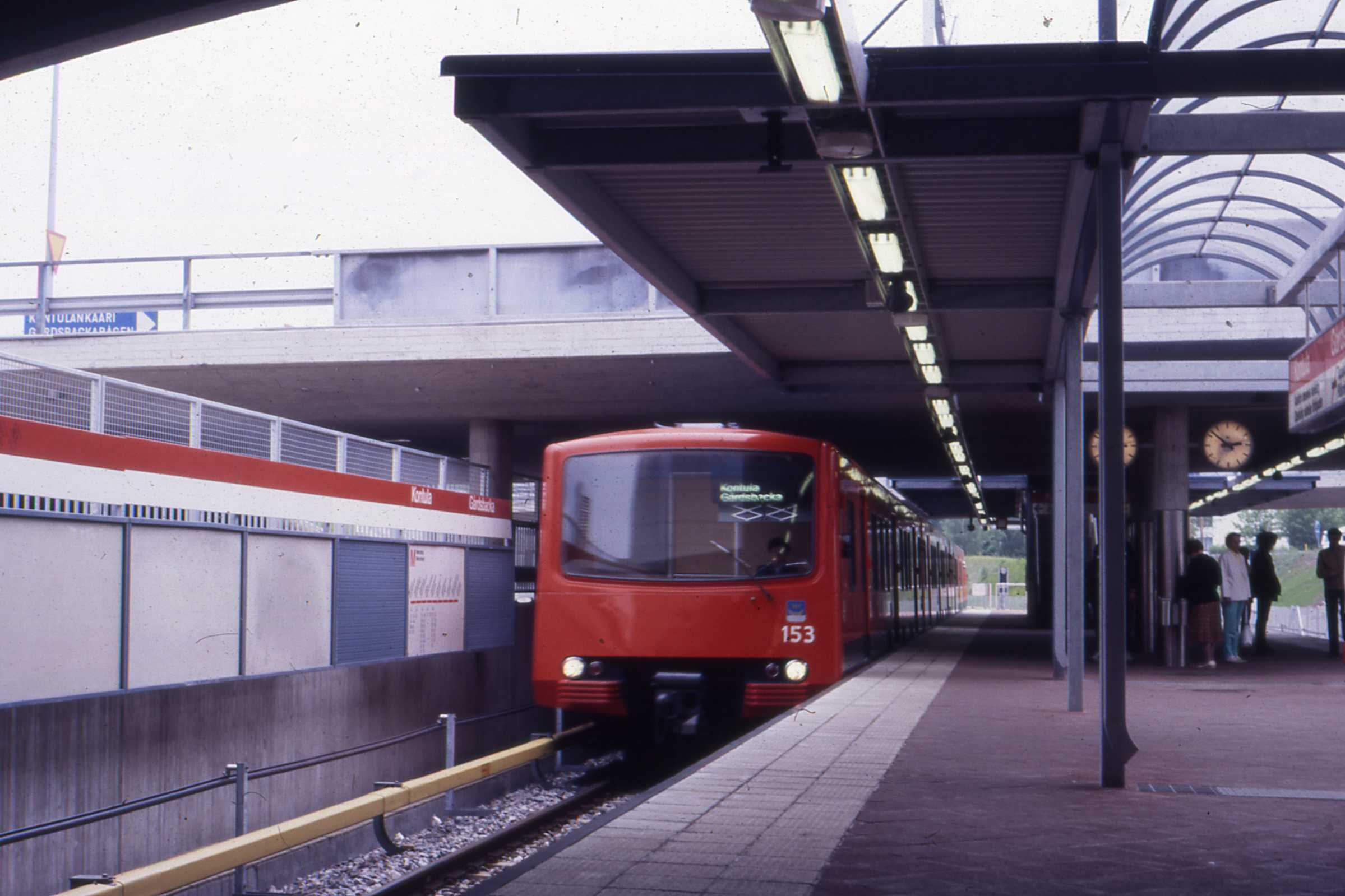 M100 train at Kontula metro station in 1987